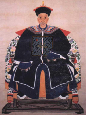 Minister Zhang Tingyu